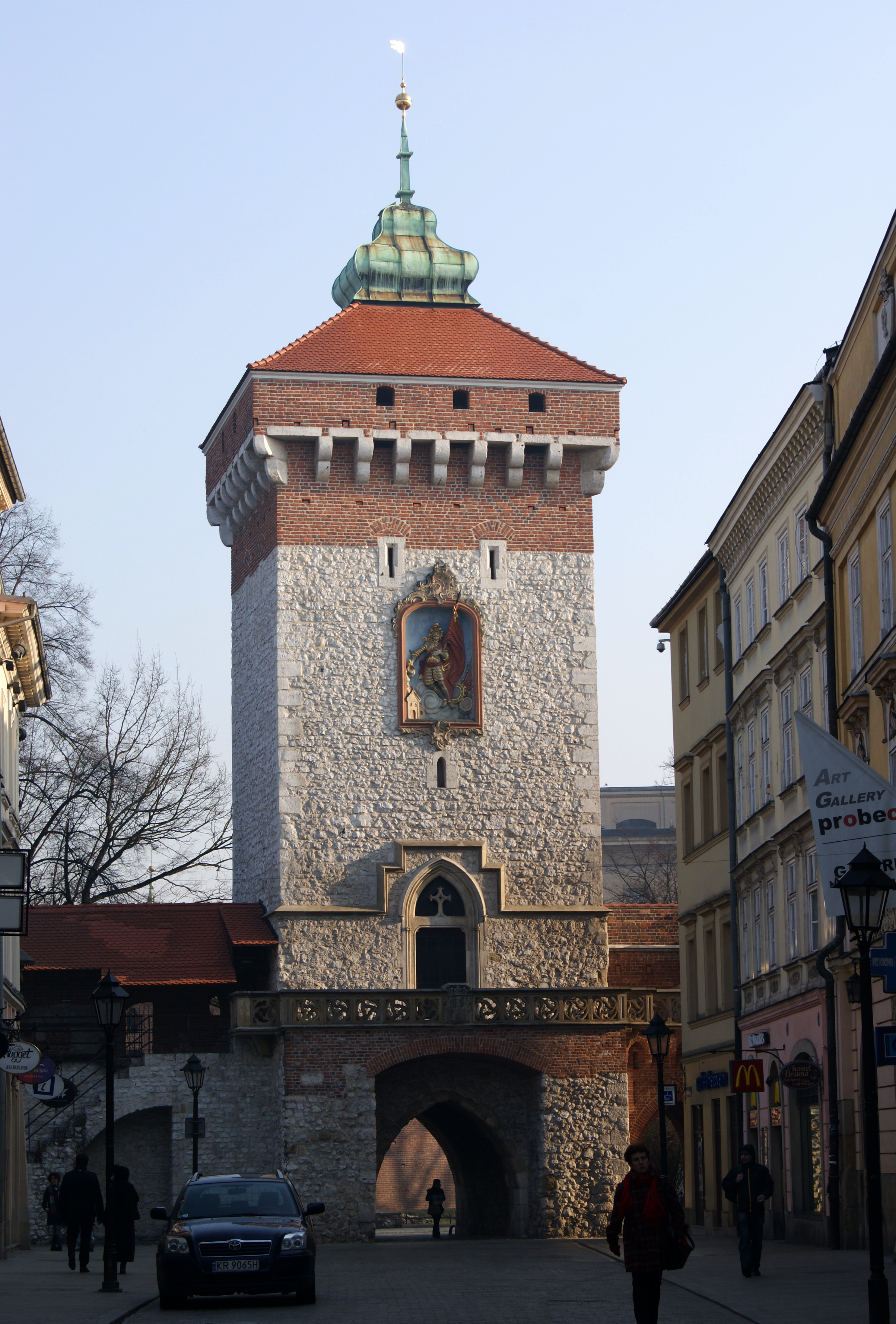 St. Florian's Gate,Old Town, Krakow,Poland